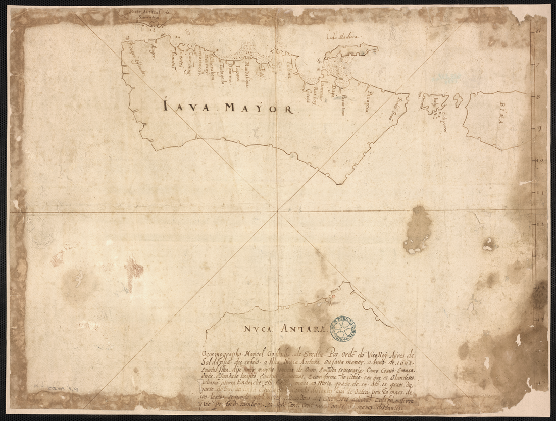 This manuscript map of Java and the tip of northern Australia is a copy of an earlier work by the Malay-Portuguese cartographer Emanuel Godinho de Eredia (1563-1623). In the 16th century, Portugal sent several expeditions to explore the islands south of Malaysia; it is possible that they gained some knowledge about the geography of Australia from these missions. Some scholars have speculated that the Malays had a knowledge of Australia, which Eredia somehow absorbed. The first documented European sighting of Australia was by the Dutch navigator Willem Janszoon, in 1606. Discovery and exploration; Manuscript maps